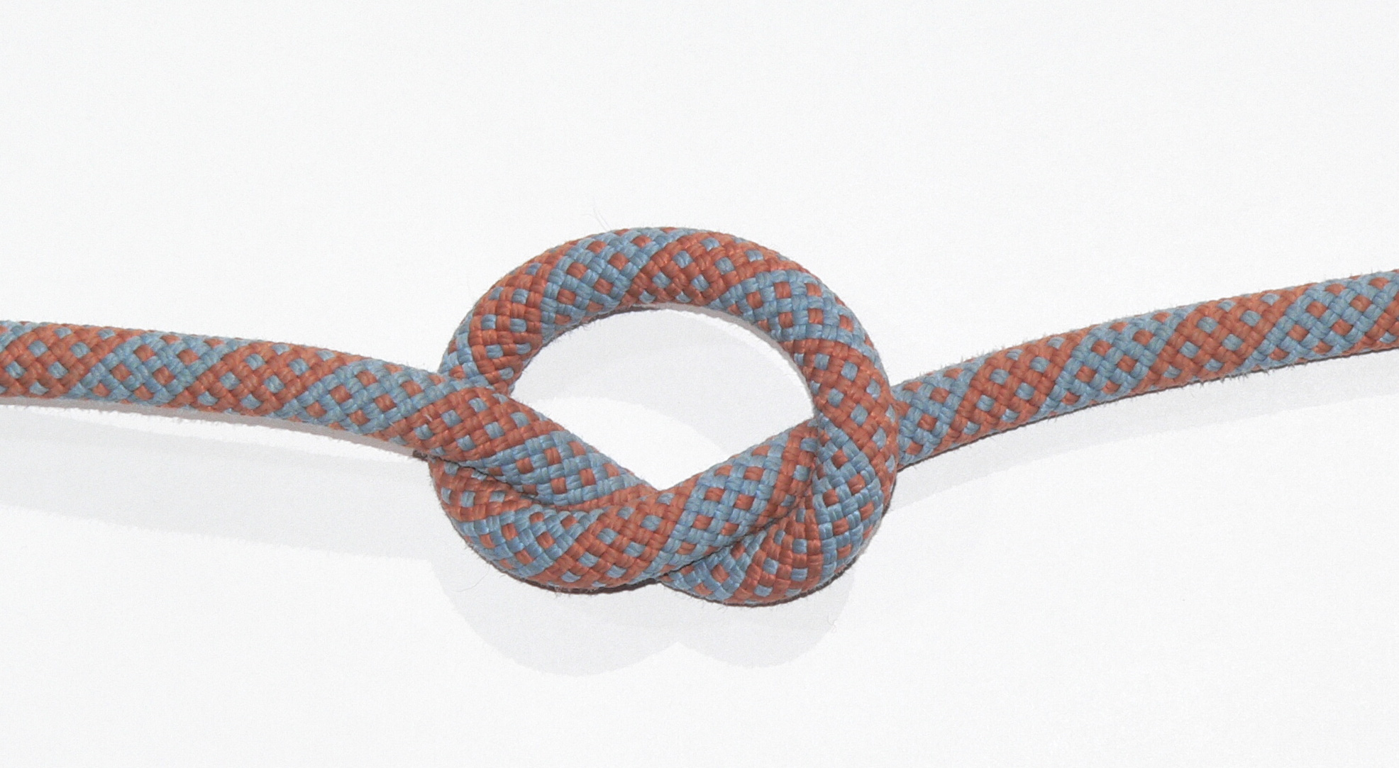 Overhand knot